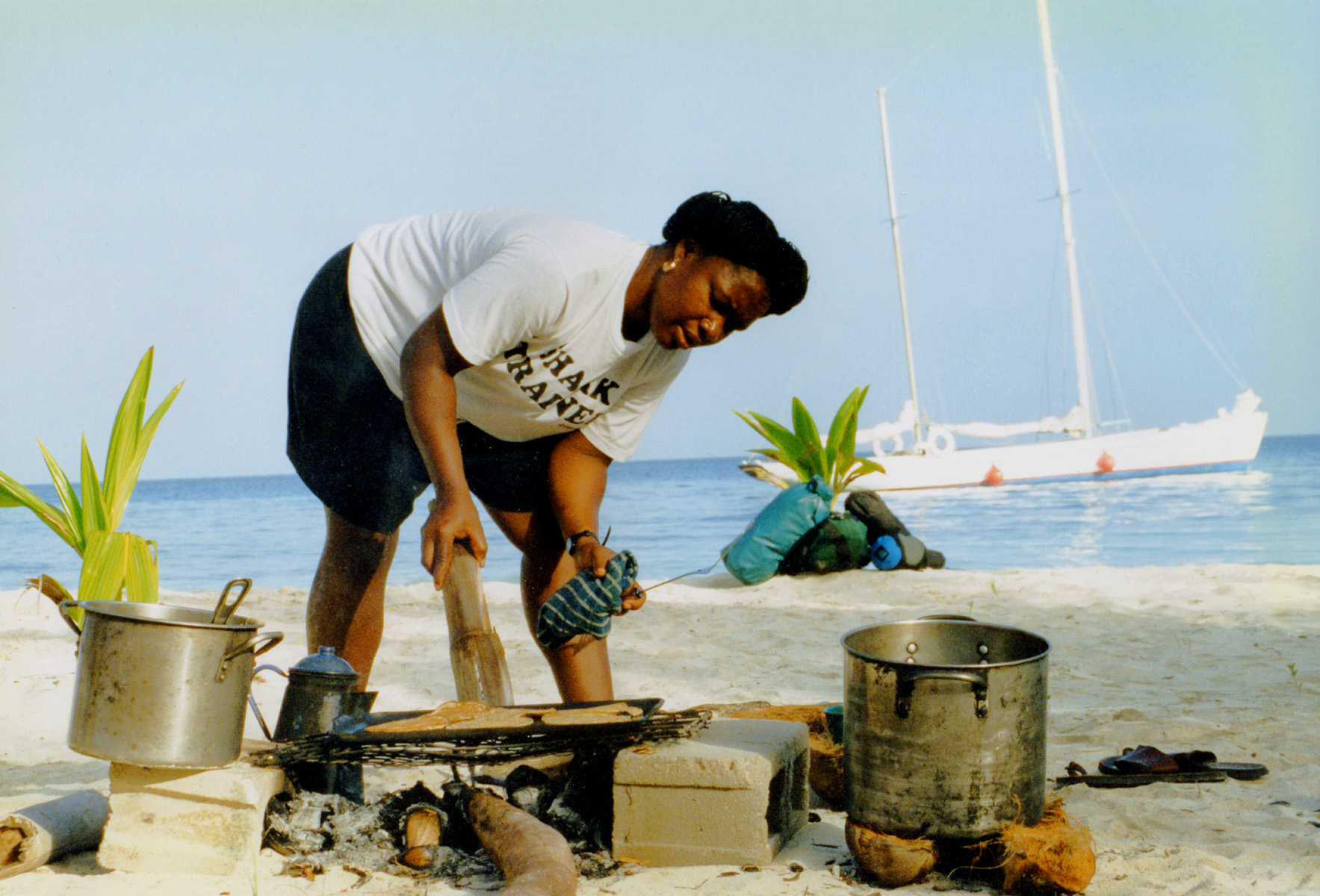 Delone was a Garafuna from Dangriga who sailed with us. She cooked some wonderful meals using traditional recipes and local ingredients.